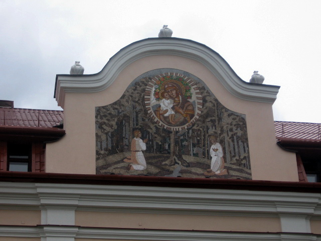 Church of the Assumption in Zhyrovichy